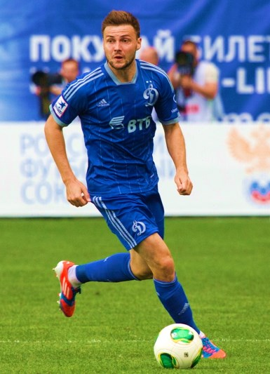 Vladimir Granat 2013